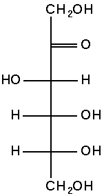 Fischer projection of D-fructose